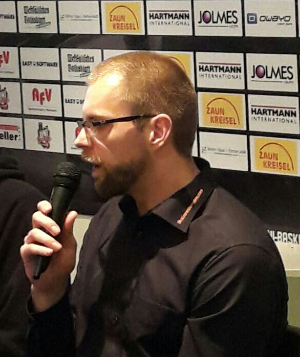 Uli Naechster, headcoach of the Uni Baskets Paderboren at a press conference after a home game.